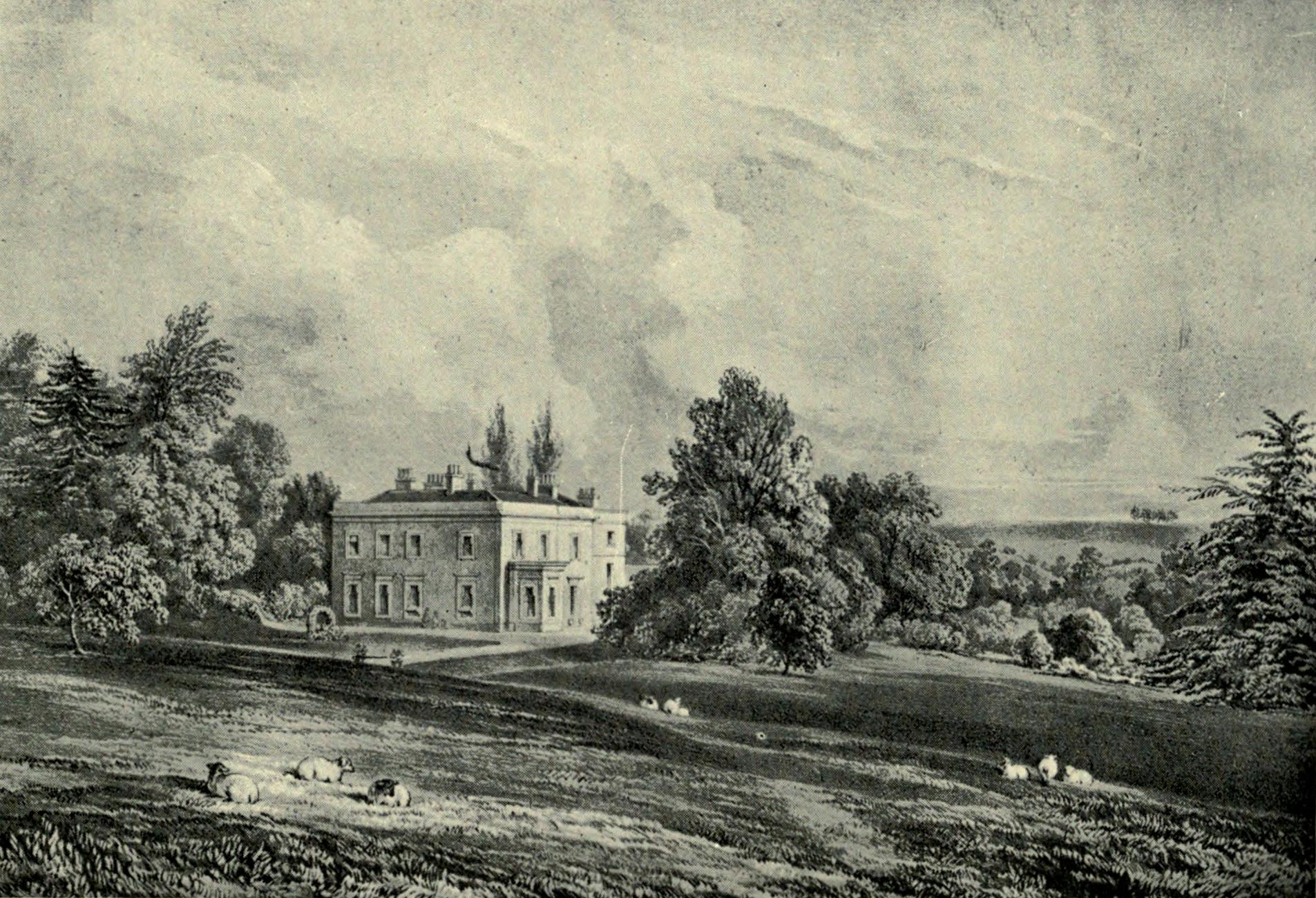 Fair Oak, the home of Sir Charles Paget.